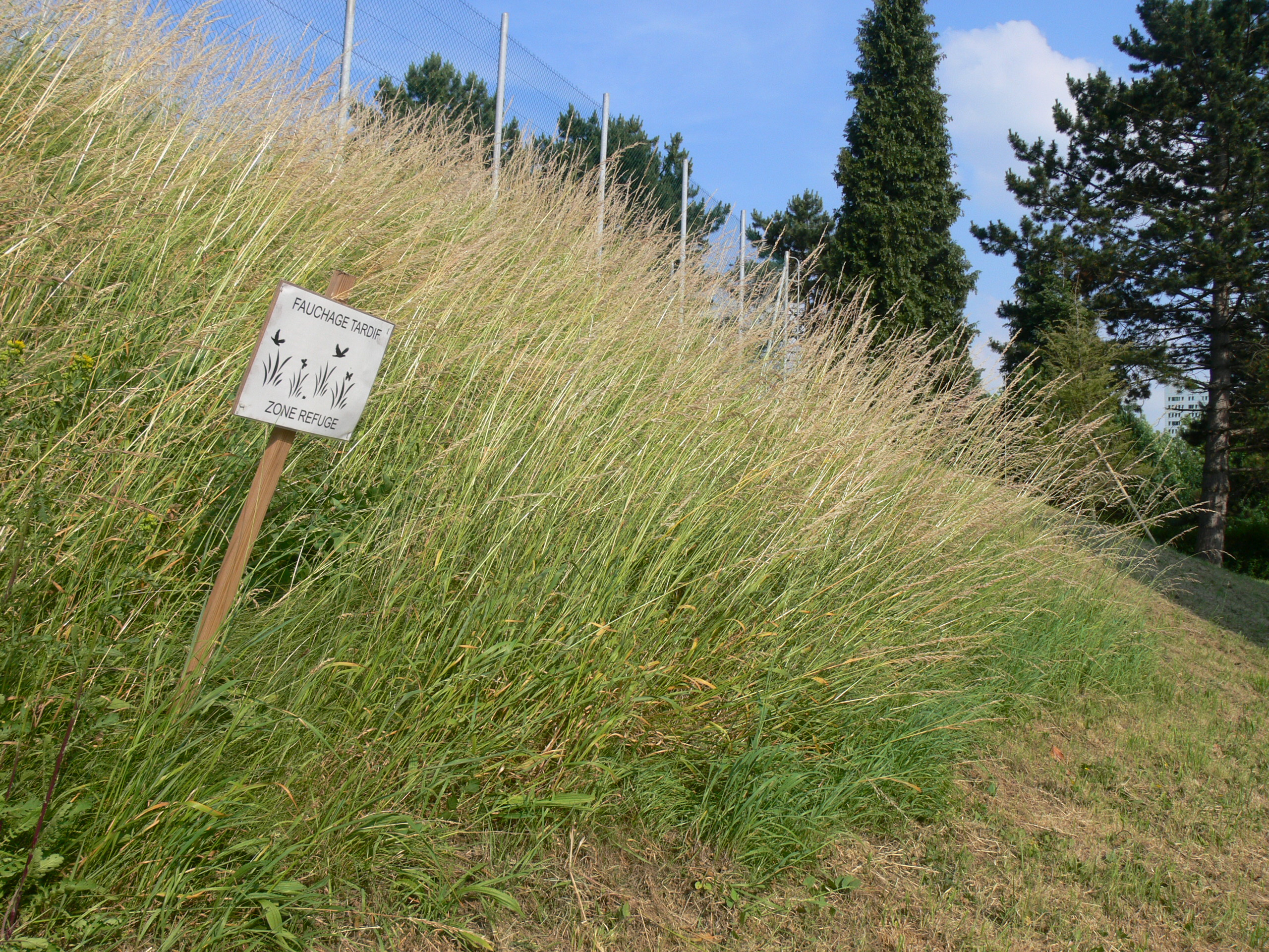 Example of late mowing (delayed). This allows some insects, birds, amphibians keep longer in the year a housing and shelters appropriate to their needs. should ideally keep the islands where they do not mow the grass for several years in order to maintain shelters for pupae stages and other winter wildlife, flora and fungi. In France, we speak of "differentiated management" to describe these approaches. This slope is located in the courtyard of a school of Lille (Lycée Pasteur), in the Nord-Pas-de-Calais region, in northern France)